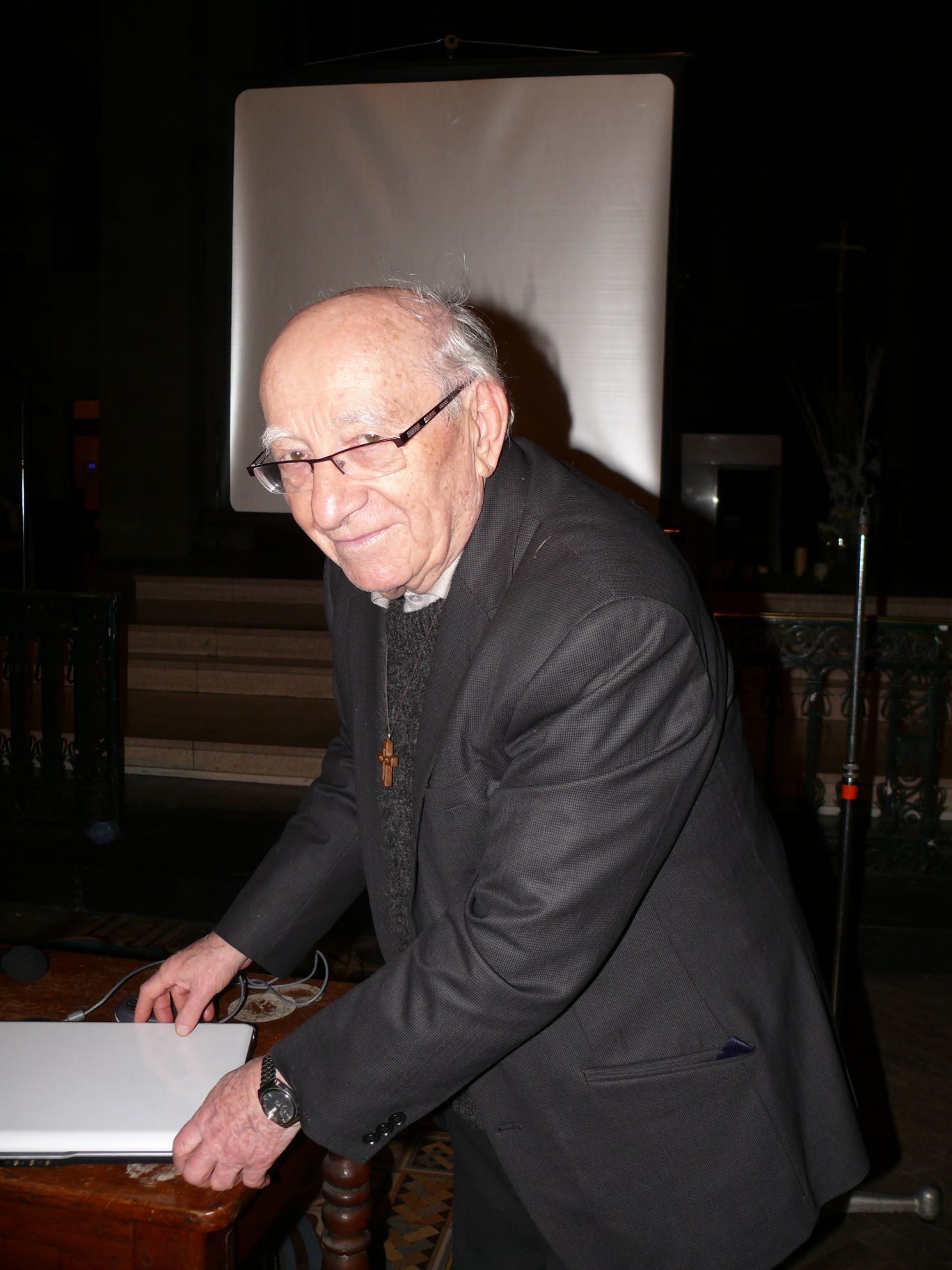 The Father Denis Sonet in Lille (Nord, France).